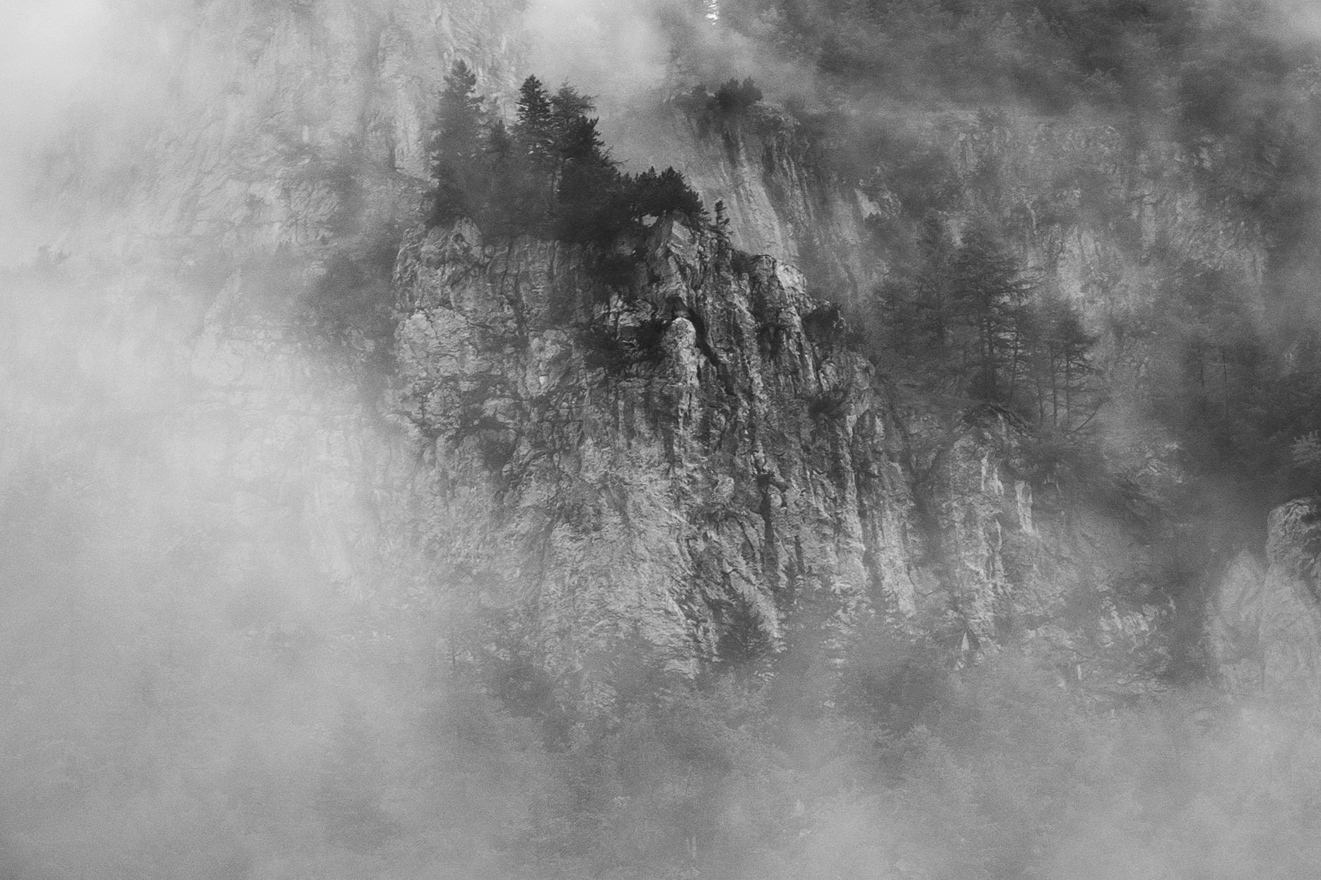 500px provided description: Picture taken at the Vallon de Nant, in the Alps of Switzerland. [#mist ,#mountain ,#Switzerland]